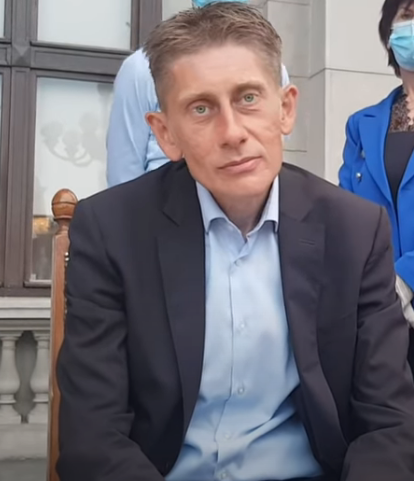 Aleksandar Martinović, Serbian politician